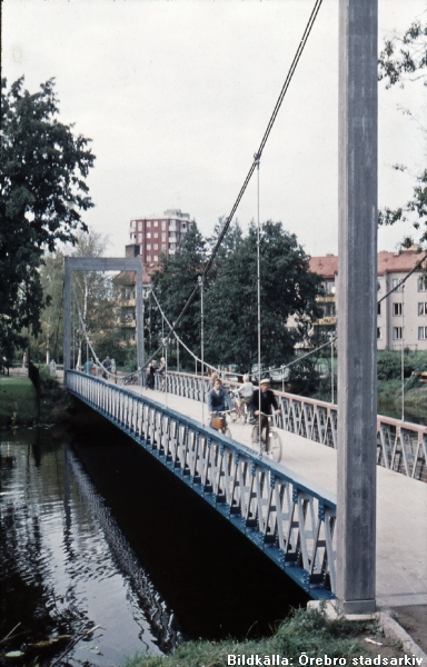 The bridge "Hängbron" Örebro Sweden